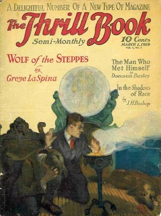 Cover of the 1 March 1919 issue of The Thrill Book. The cover art is by Sidney H. Riesenberg.